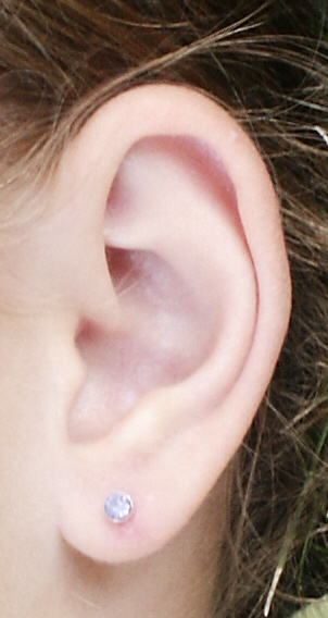 12-year-old girls pierced earlobe with an stud earring.